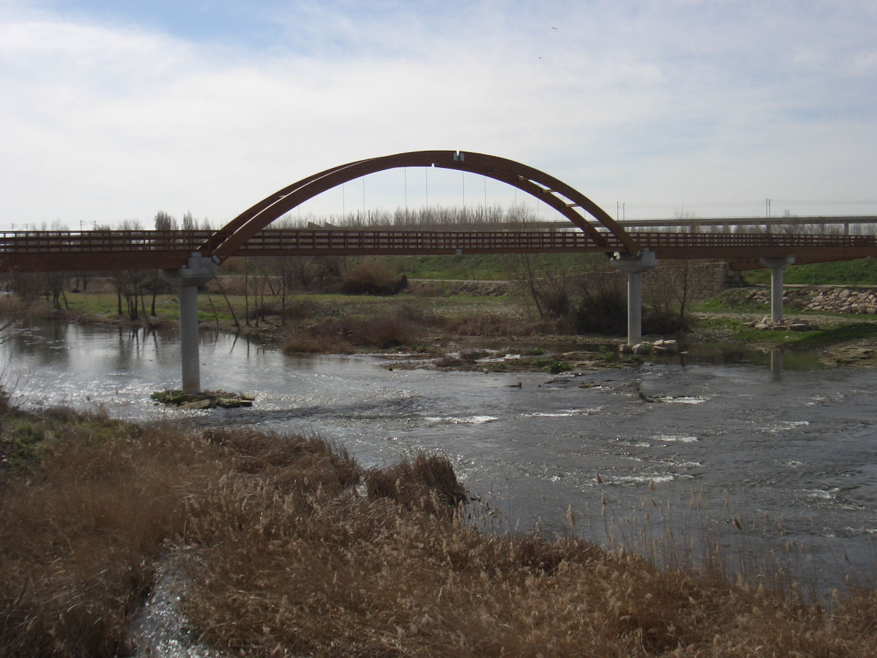 Footbridge on the Segre river in the municipal term of Lleida